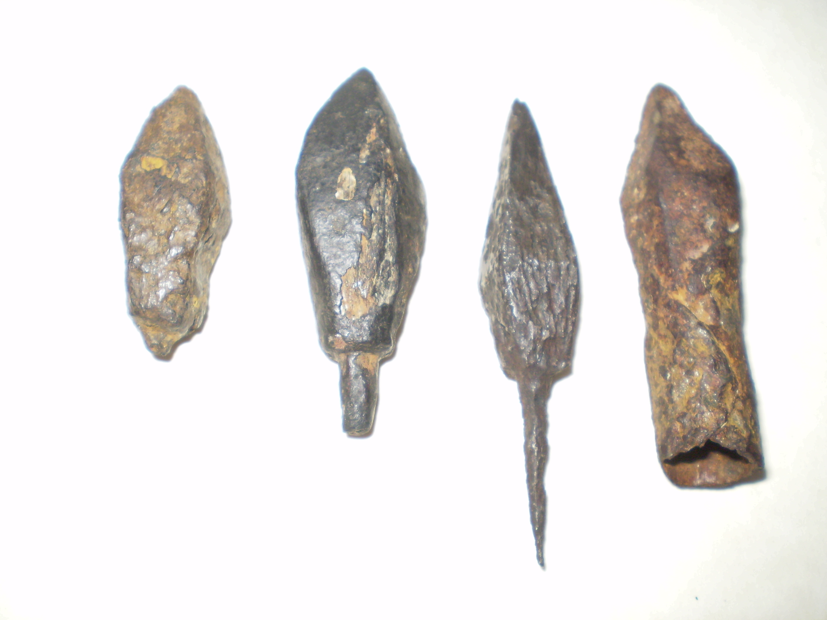 Tip. crossbow. arrows-Livonia